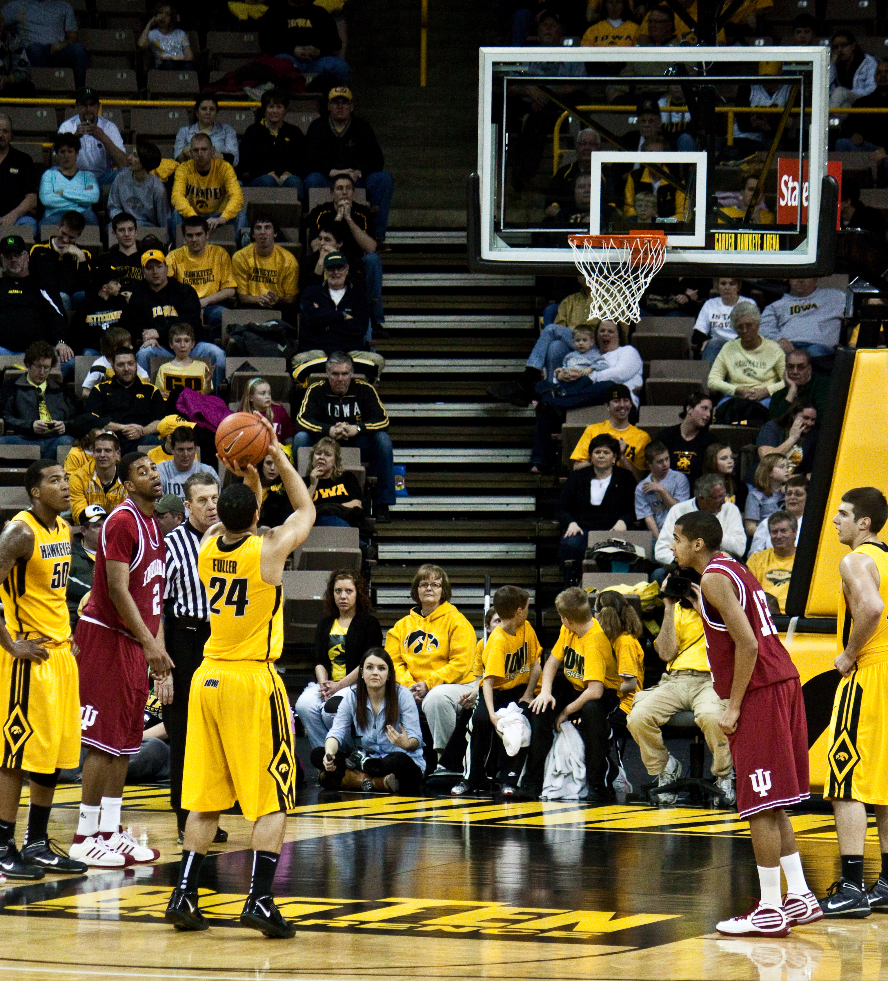 University of Iowa basketball player Aaron Fuller attempts a free throw in a game against Indiana University. Left of Fuller, L-R: Iowa #50 Jarryd Cole, Indiana #2 Christian Watford. Right of Fuller, L-R: Indiana #12 Verdell Jones III, Iowa #25 Eric May.